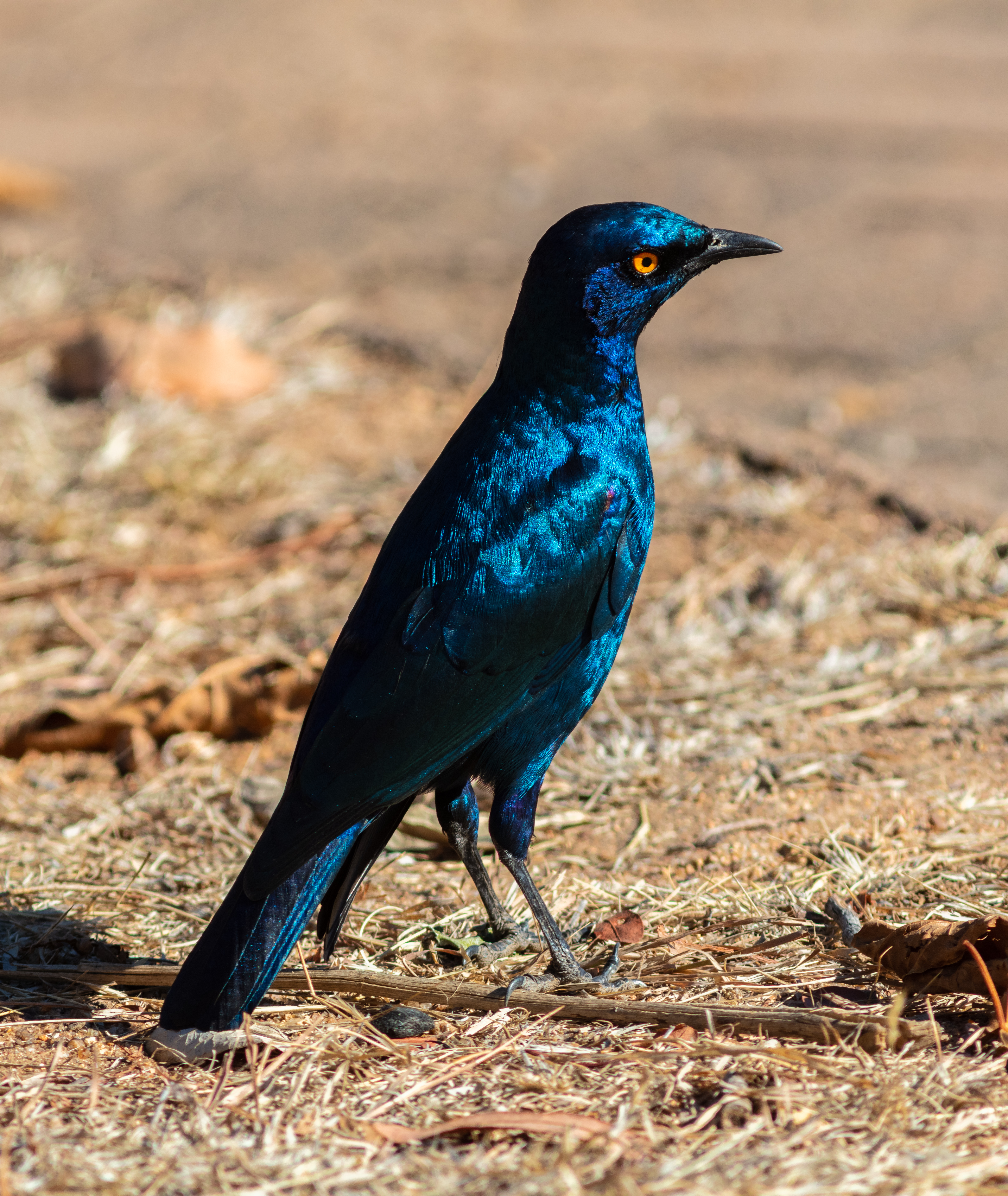 Cape starling (Lamprotornis nitens), Kruger National Park, South Africa